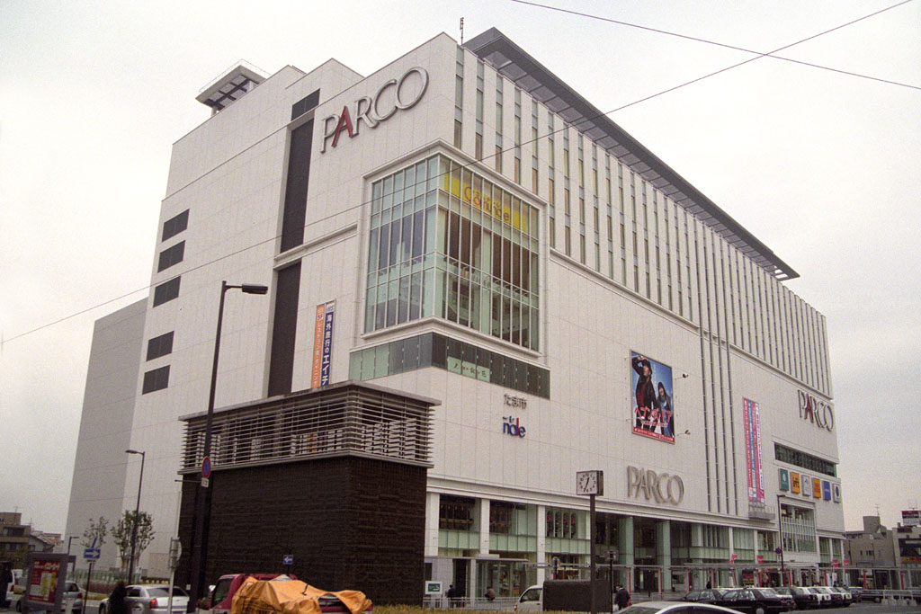 Urawa PARCO Shopping Center in Japan.